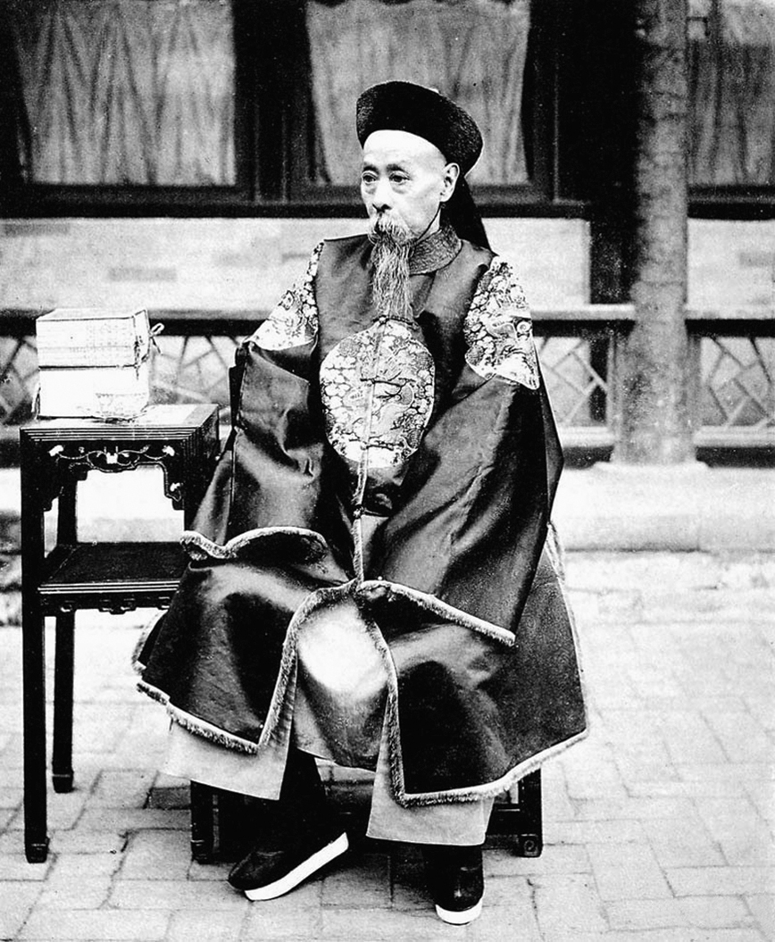 Pmyikuang.jpg